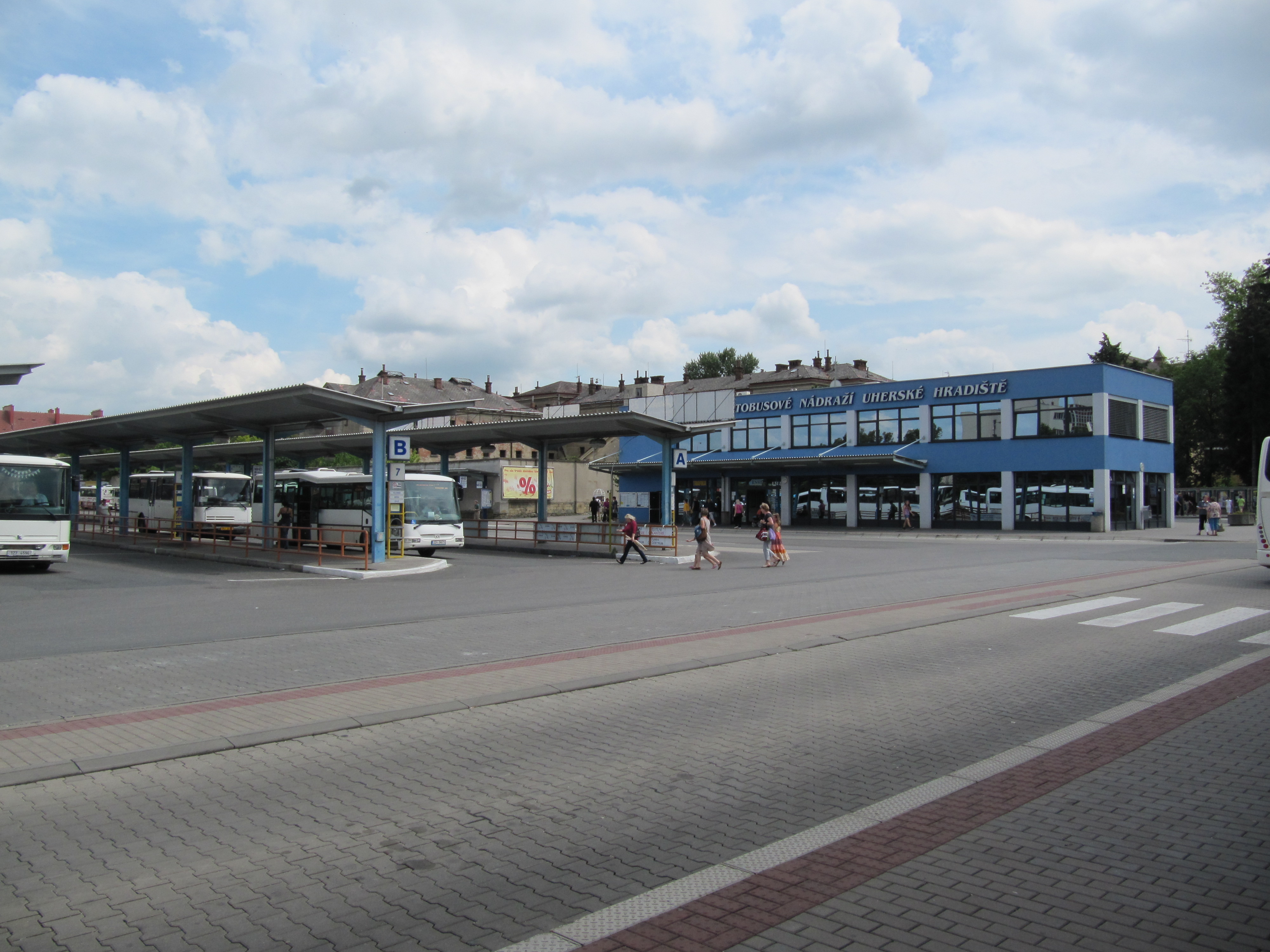 Uherské Hradiště, Czech Republic. Bus station.